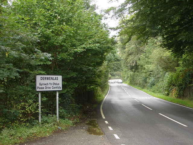 A487 Road, near to Derwenlas, Powys, Wales. Welcome to Derwenlas!